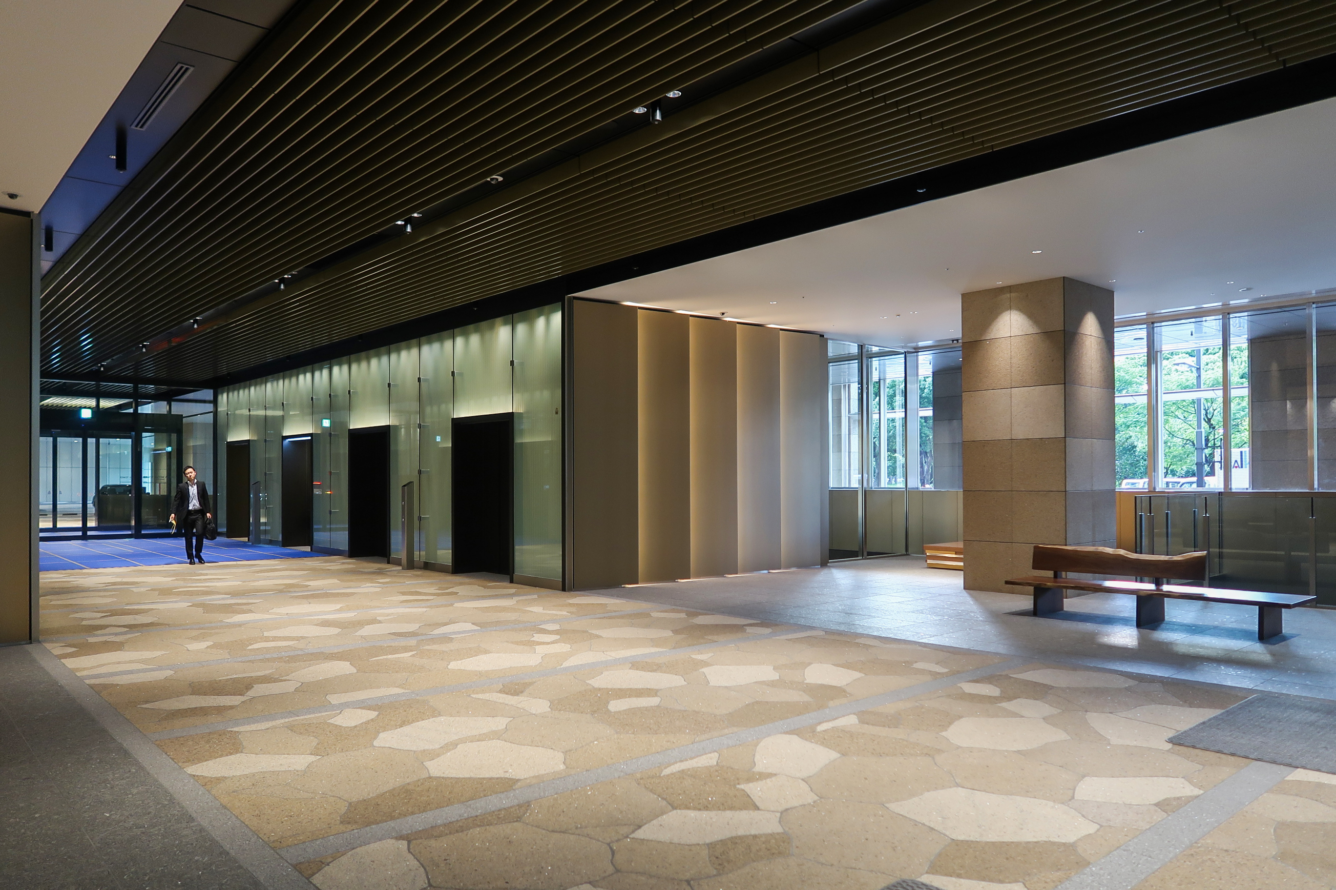 Tokyo Midtown Hibiya Level 1 Office Lobby